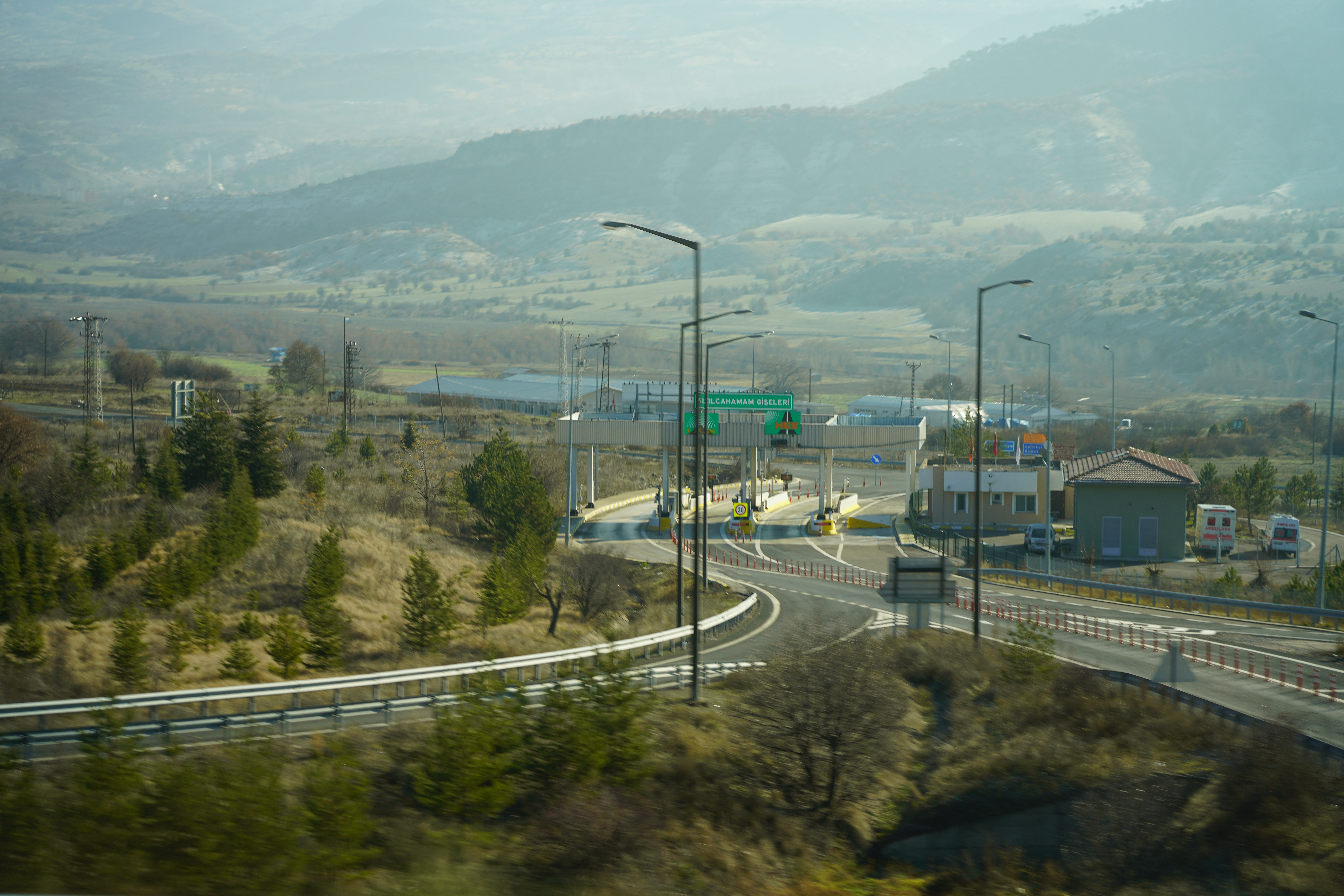 Kızılcahamam Toll Plaza on the Motorway O-4 in Ankara Province, Turkey